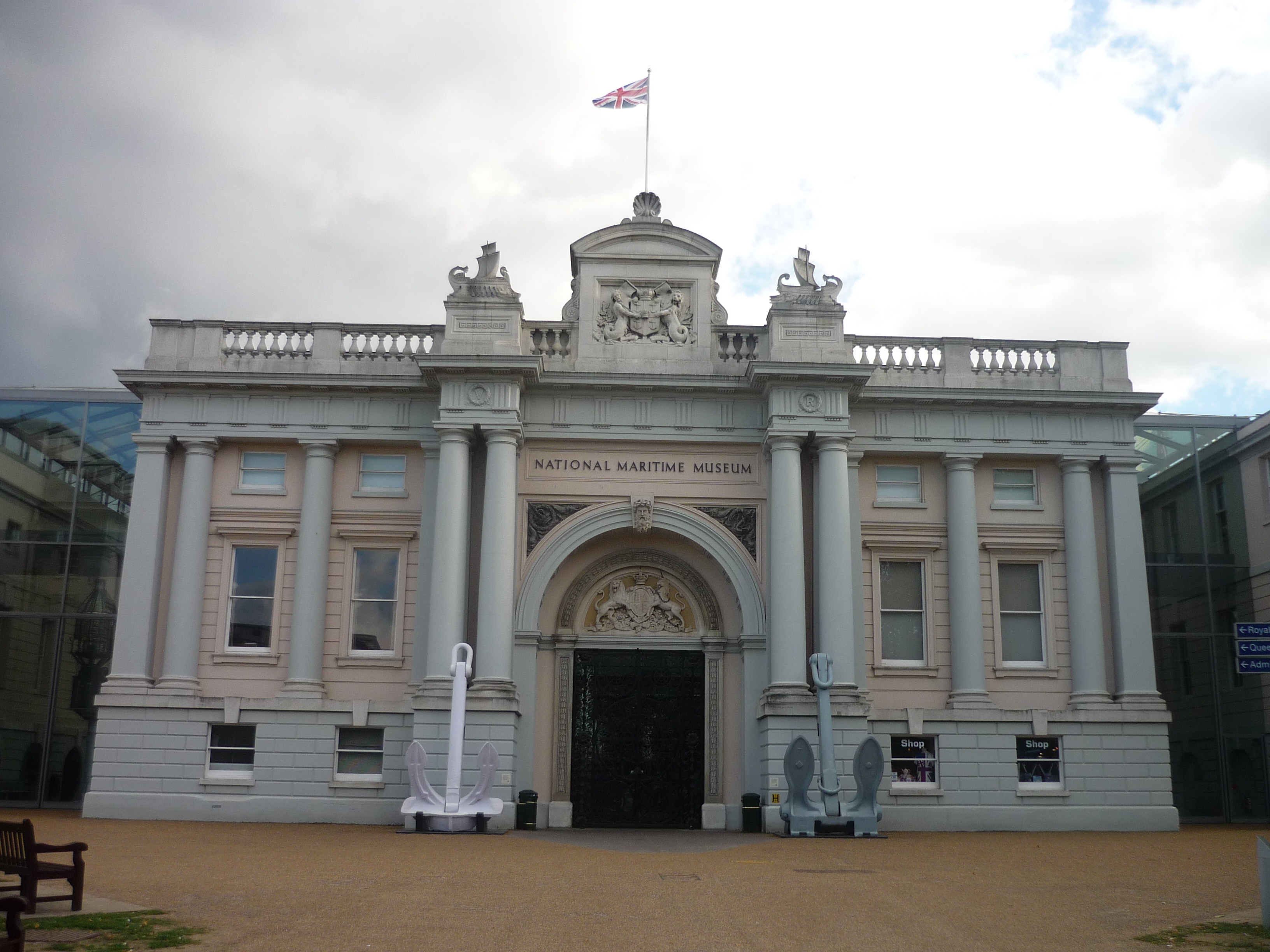 The National Maritime Museum in Greenwich, London